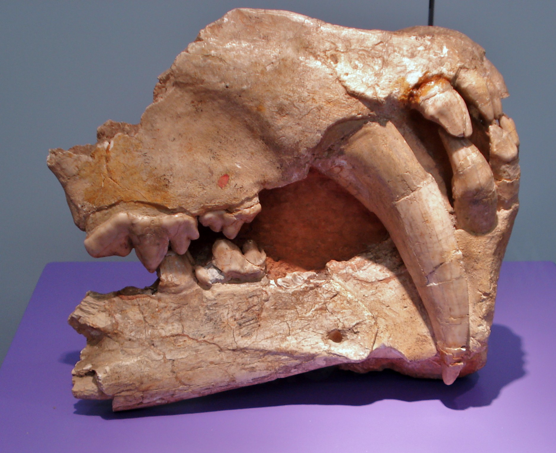 fossil of machairodus leoninus